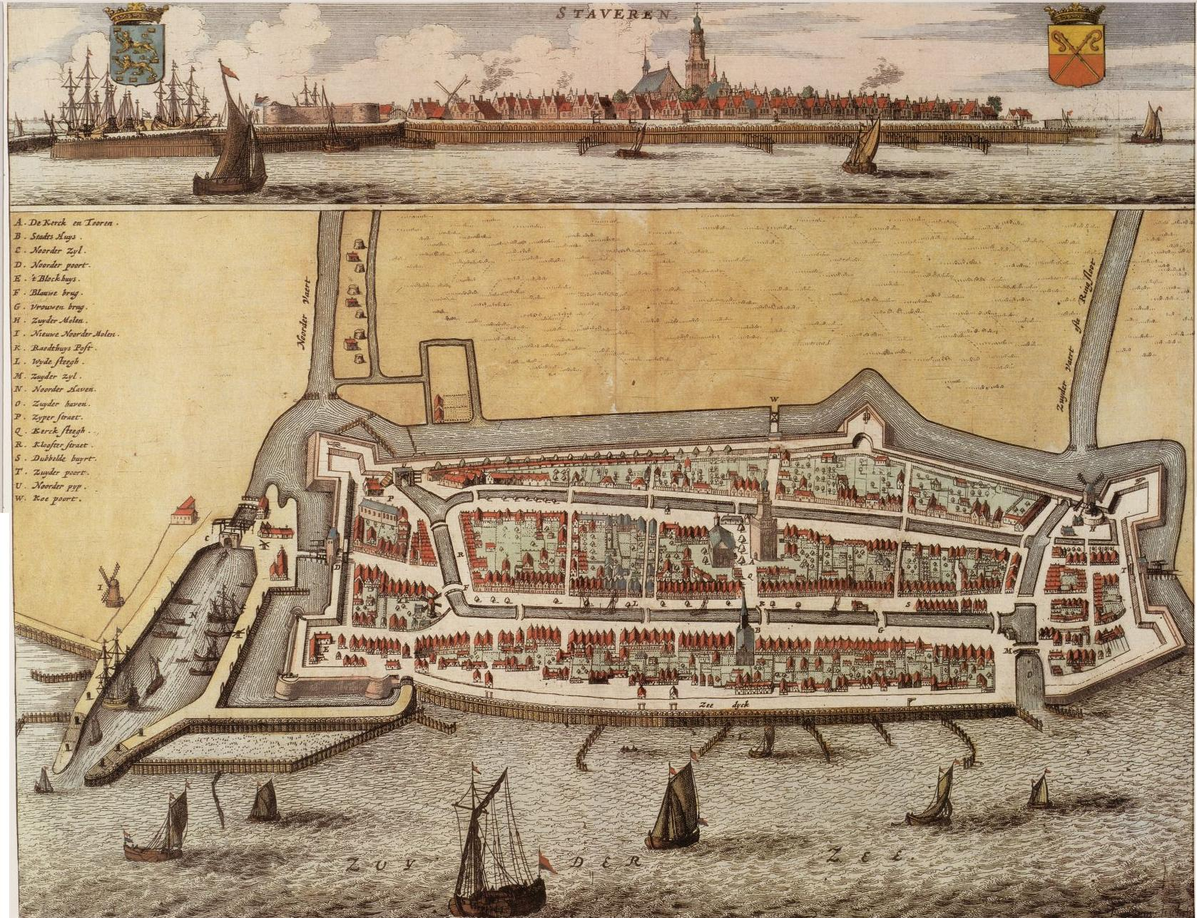 Elf reproducties van Friese stadsplattegronden uit de Beschrijving van Heerlijkheydt van Friesland door Bernardus Schotanus a Sterringa uitgegeven in 1664 staveren